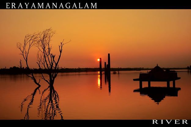 Erayamangalam River Which Make the Village Very Grant